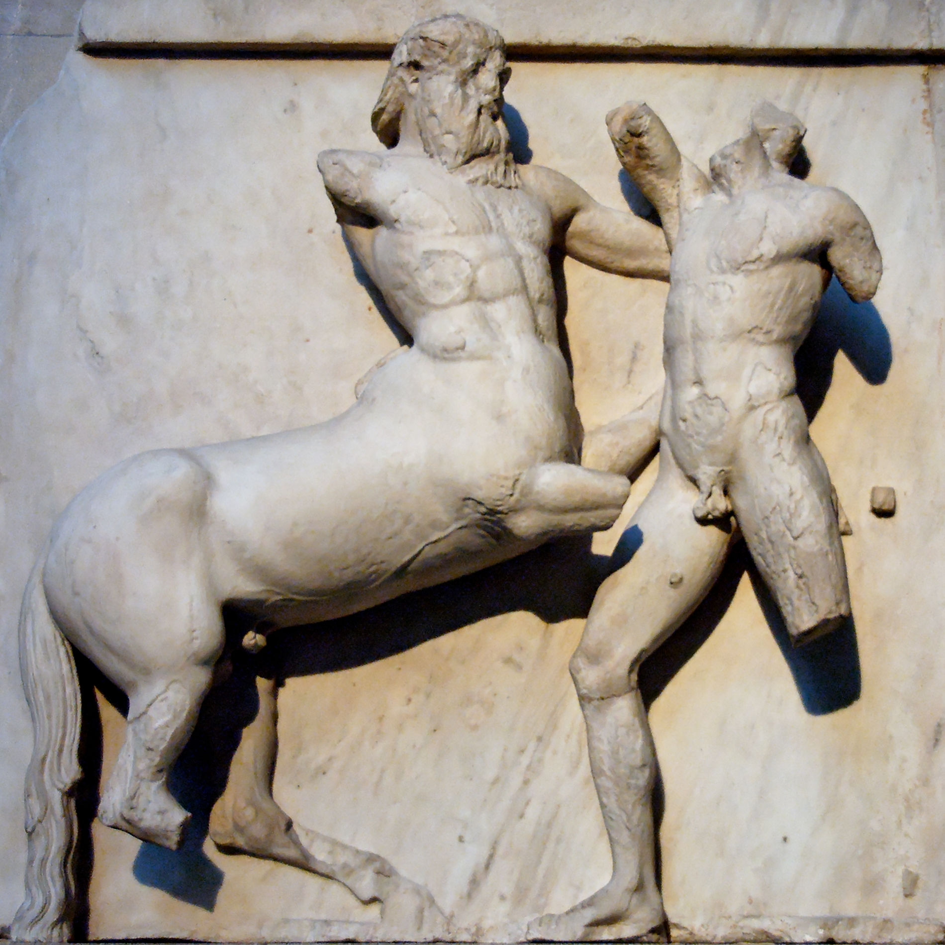 Lapith fighting a centaur. South Metope 32, Parthenon, ca. 447–433 BC.